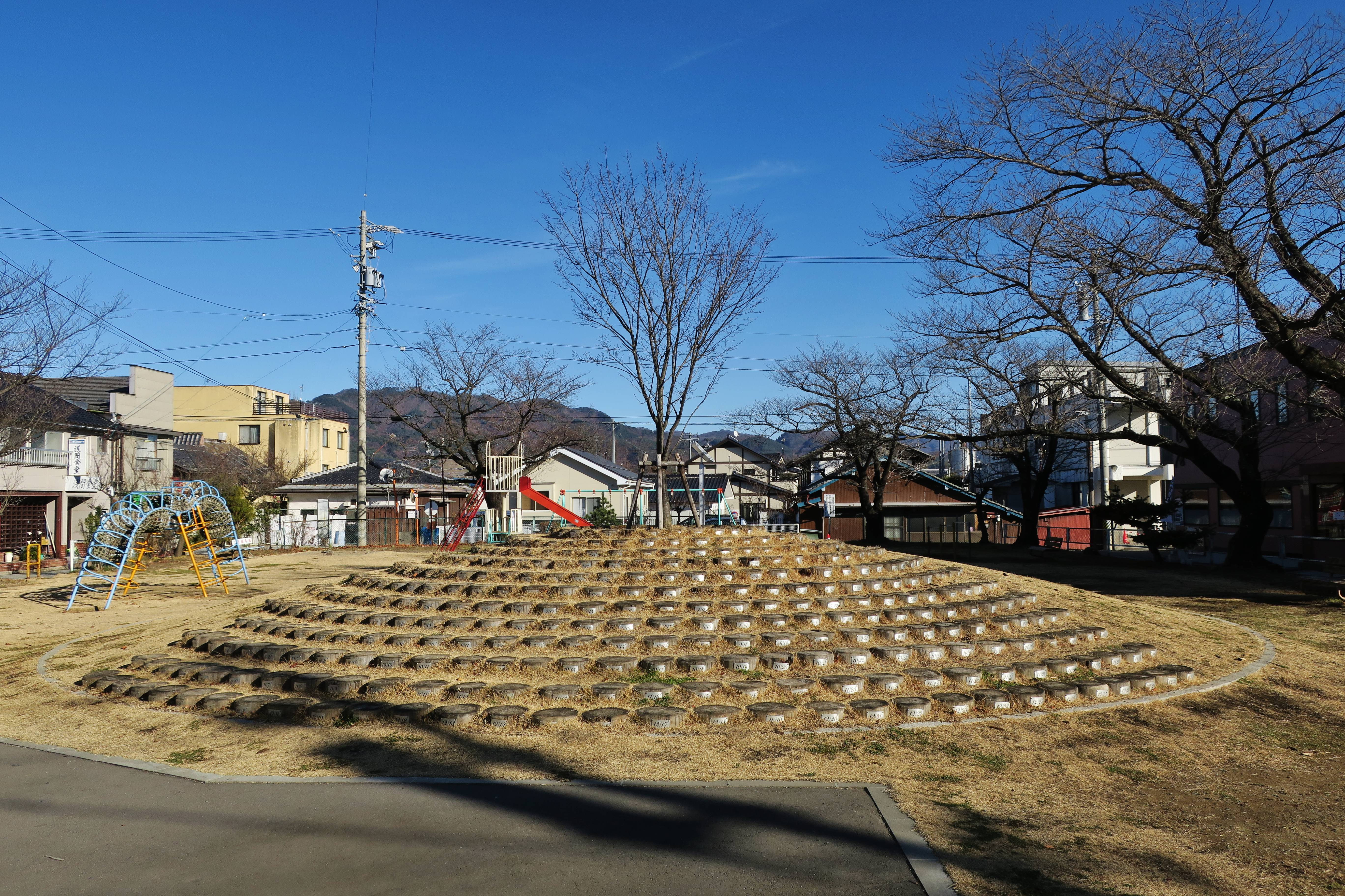 Saku city central park Birthday Hill.